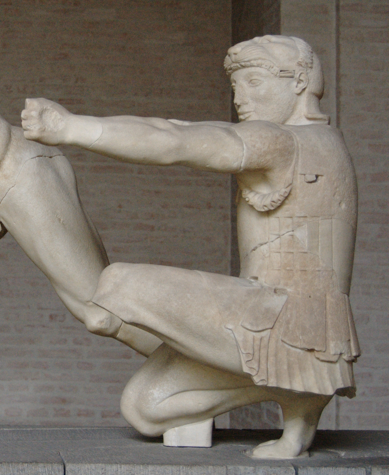 Heracles as archer (wearing a lion-head helmet), figure E-IV of the east pediment of the Temple of Aphaia, ca. 485–480 BC.